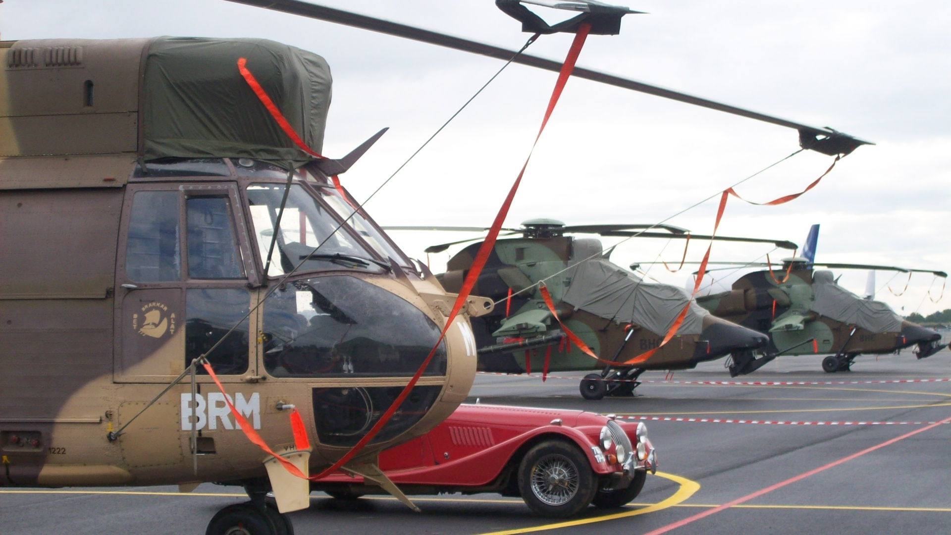 Puma SA-330 and Eurocopter EC665 Tigre of 5th RHC, Open Days 2009.